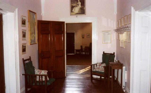 Kesgrave Hall School (Main Entrance Hall) This is the entrance hall as one went through the front door.